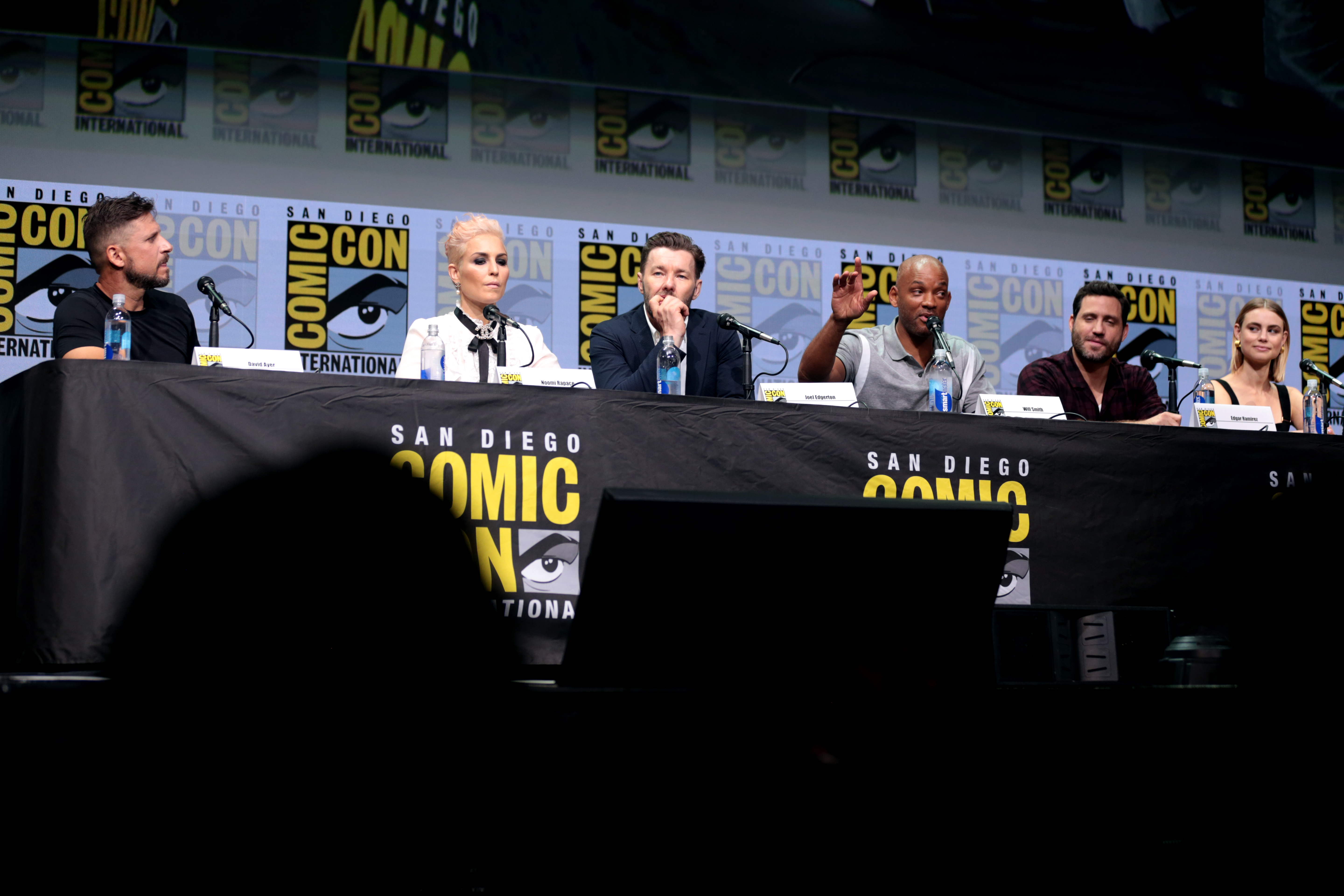 David Ayer, Noomi Rapace, Joel Edgerton, Will Smith, Edgar Ramirez and Lucy Fry speaking at the 2017 San Diego Comic Con International, for "Bright", at the San Diego Convention Center in San Diego, California.